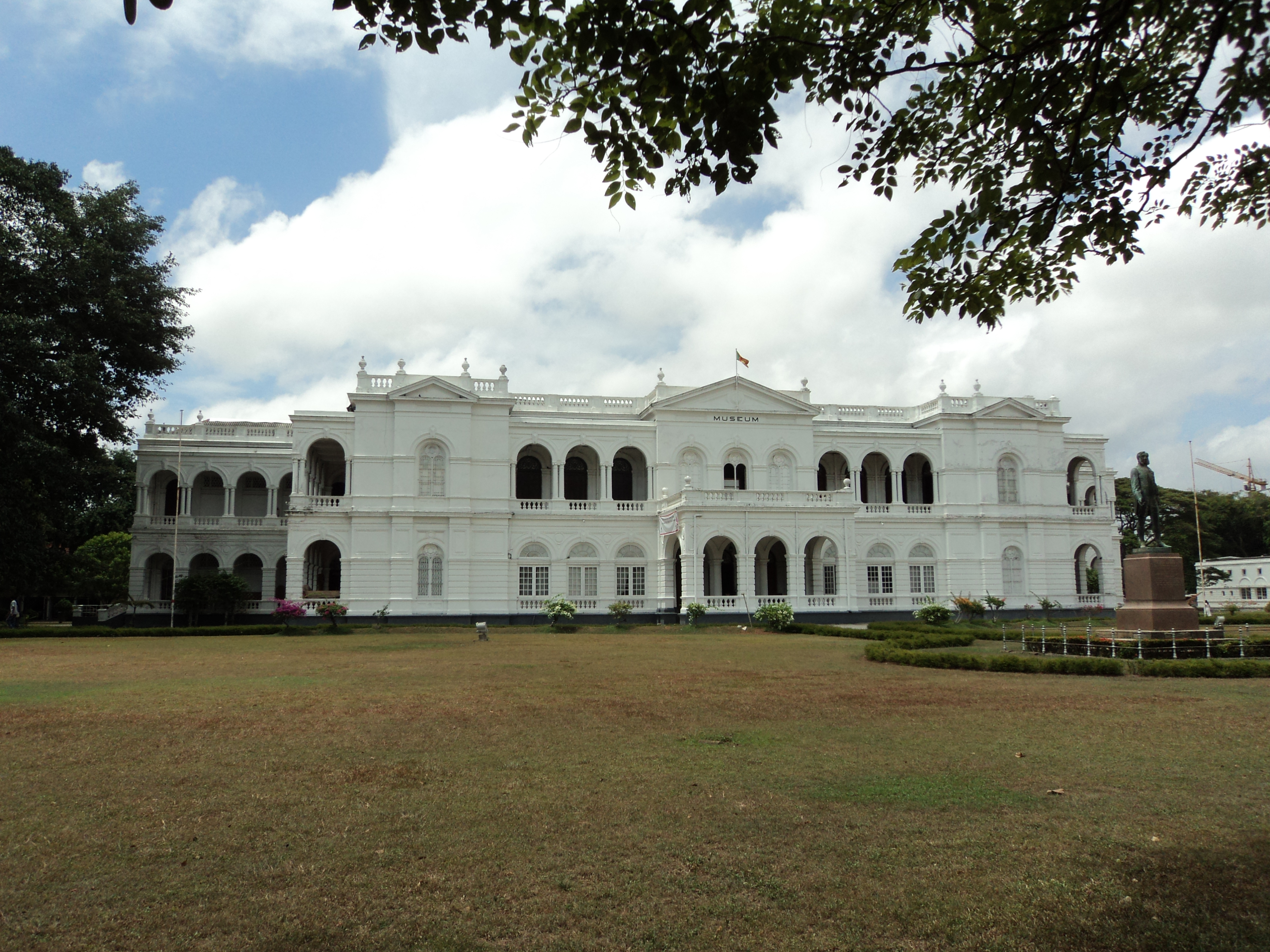 Colombo National Museum, Sri Lanka